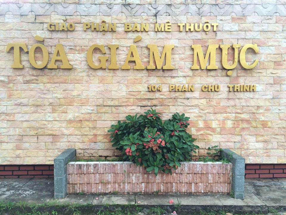 Cổng của tòa giám mục